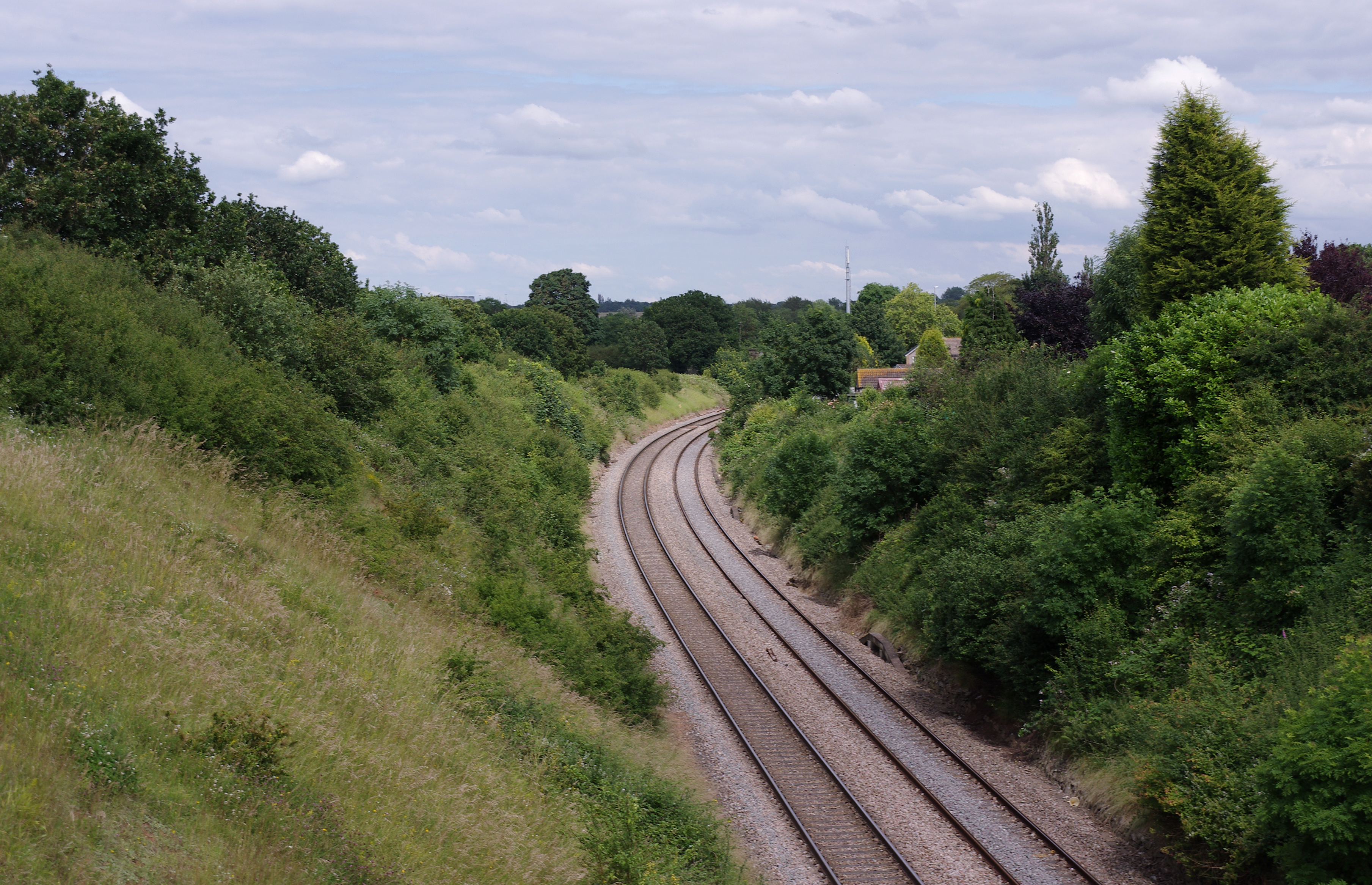 View east from a footbridge over the Filton to Avonmouth (Henbury Loop) Line at Henbury.